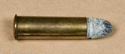 12,17x44 mm R, rimmed centerfire cartridge for Swedish and Norwegian M1867 Remington rolling block rifles.